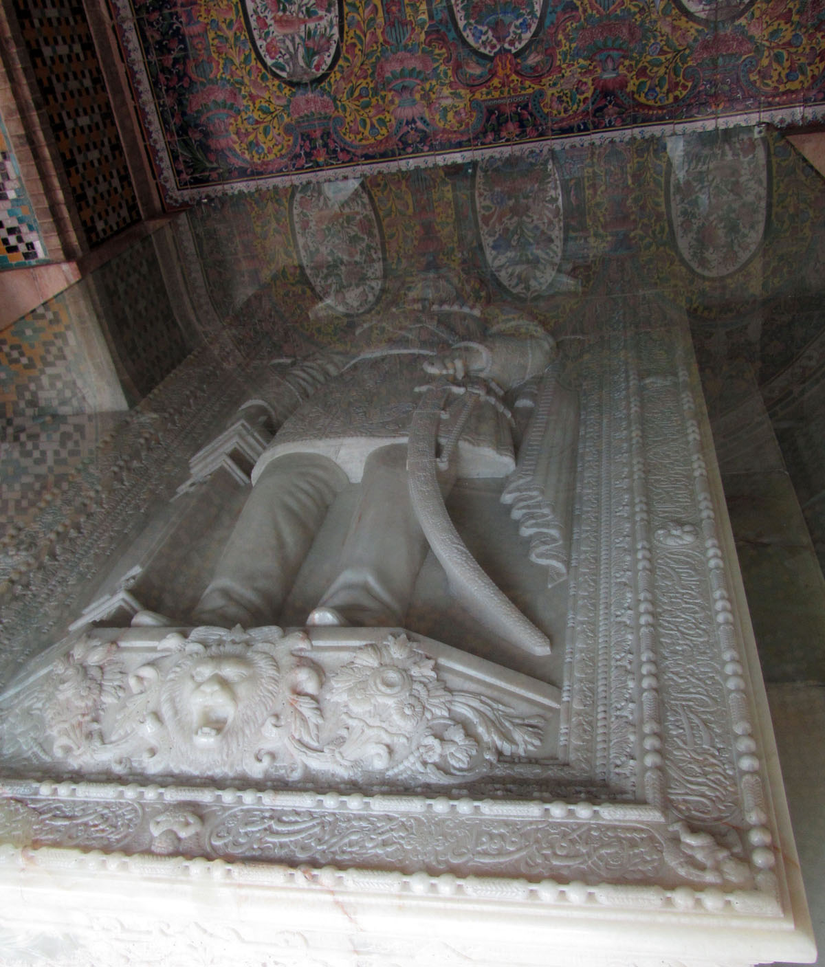 Khalvat e karimkhani